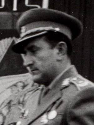 Vasilije Smajević is a politician